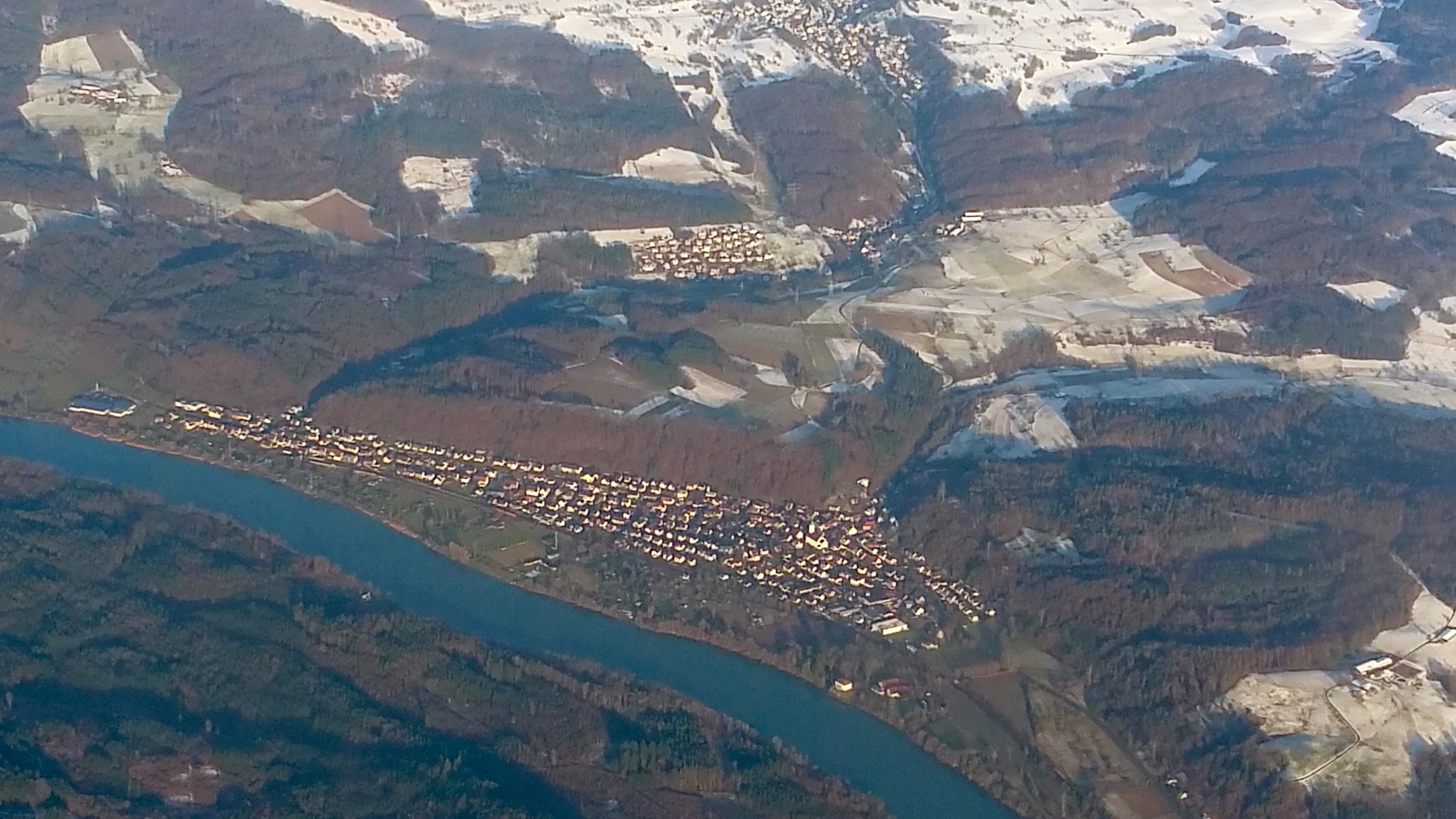 Germany, approach into ZRH across the Black Forest